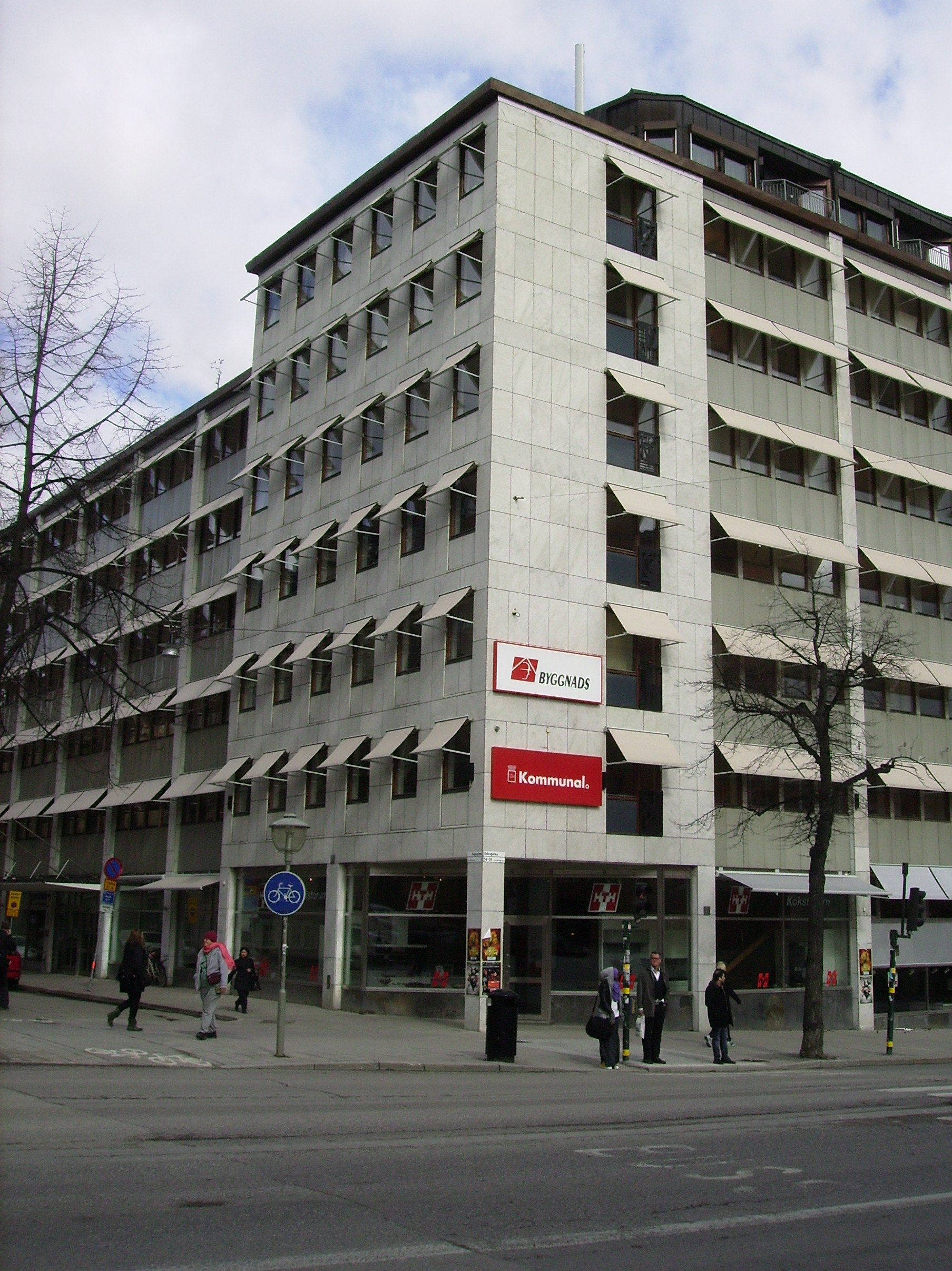 Picture of Byggnads and Kommunal building in Stockholm